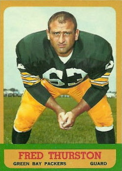 National Football League player Fred "Fuzzy" Thurston displayed on a Topps football trading card with the Green Bay Packers in 1963.